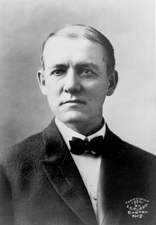 Charles Elroy Townsend Source: Biographical Directory of the U.S. Congress